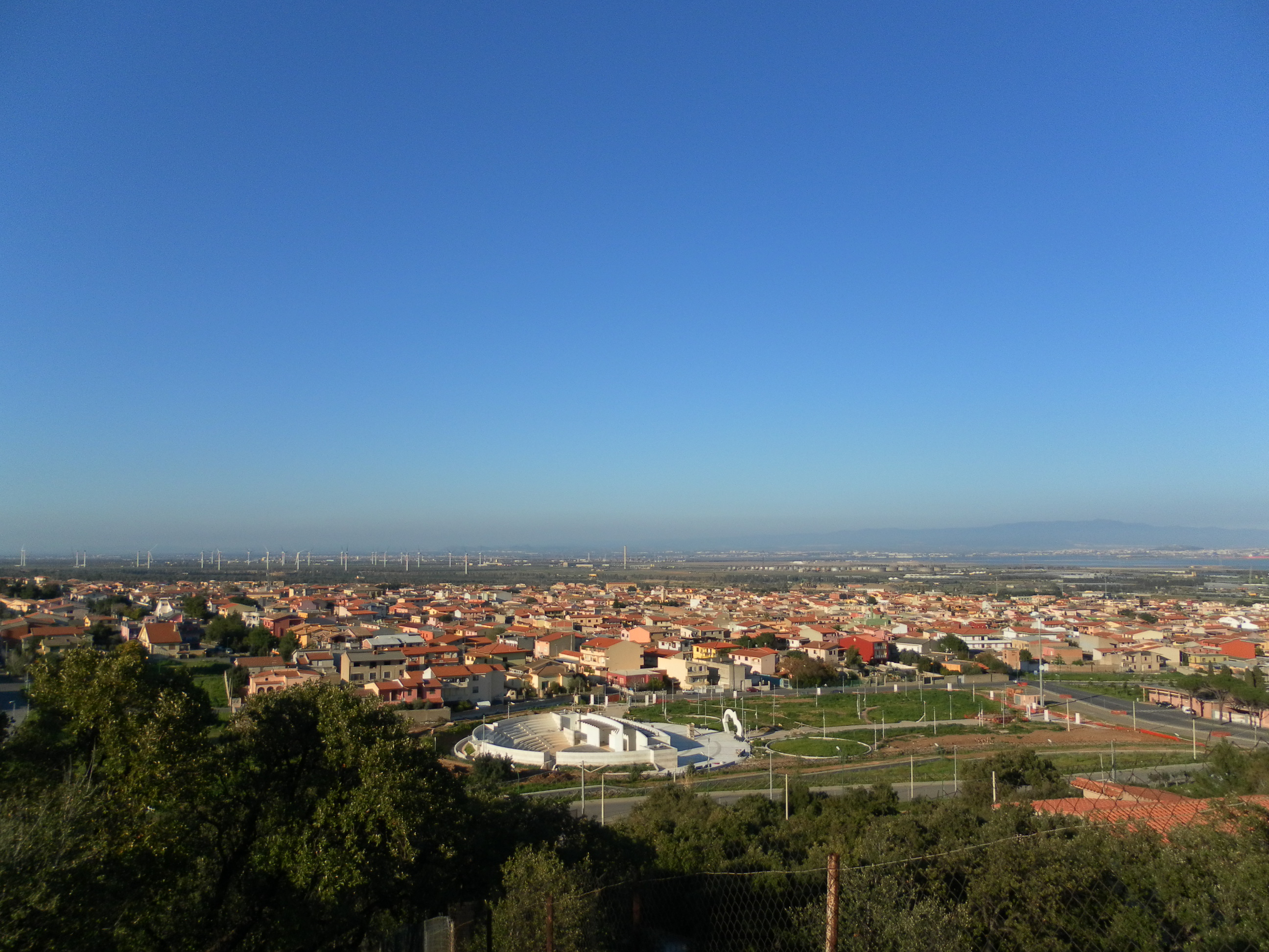 capoterra